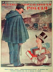 Cover of the magazine Illustrated Russia. Paris. 1927